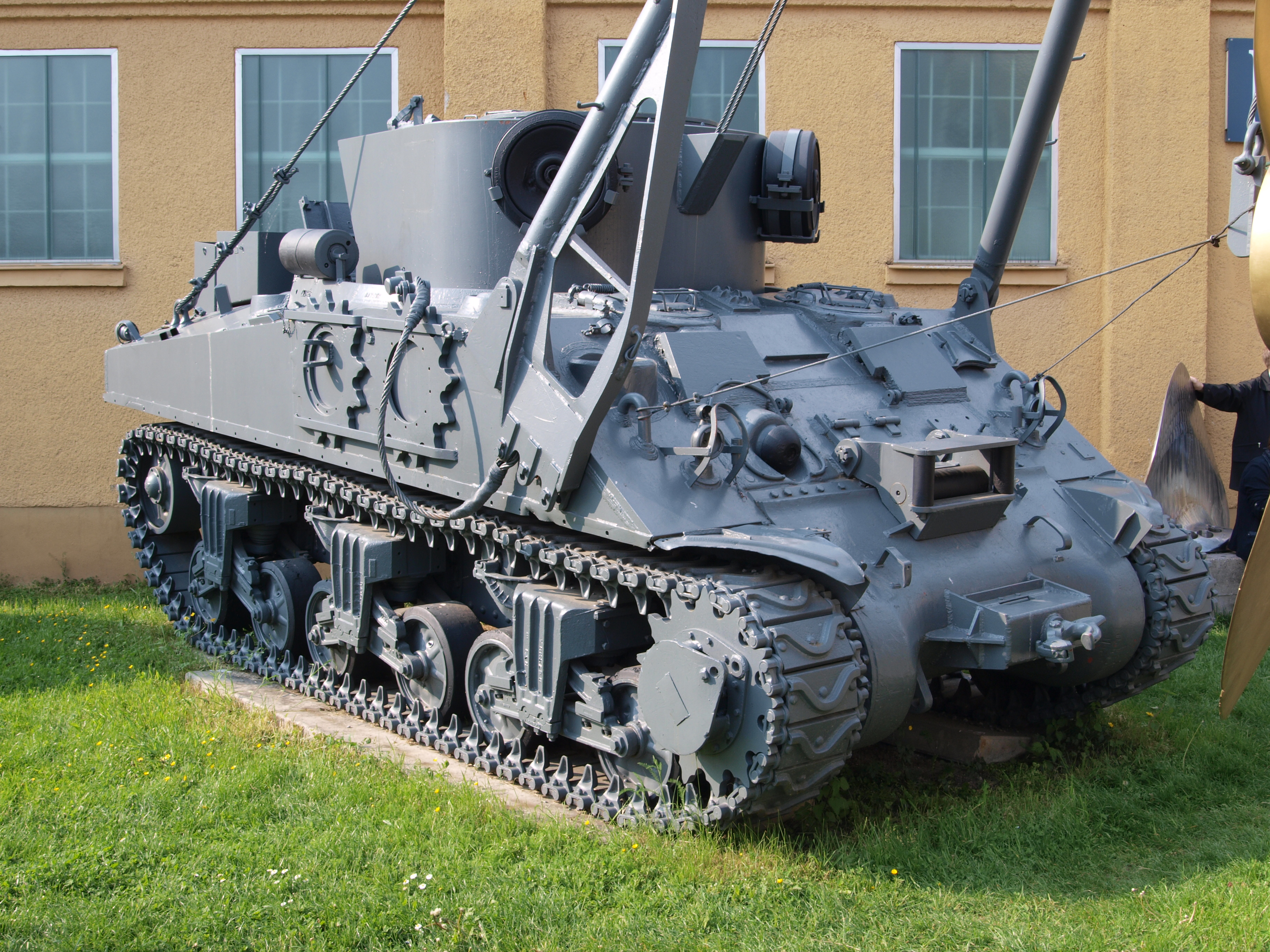 Sherman M32